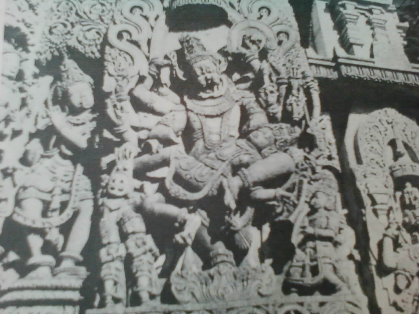 An Example of Hoysala architecture in Halebid